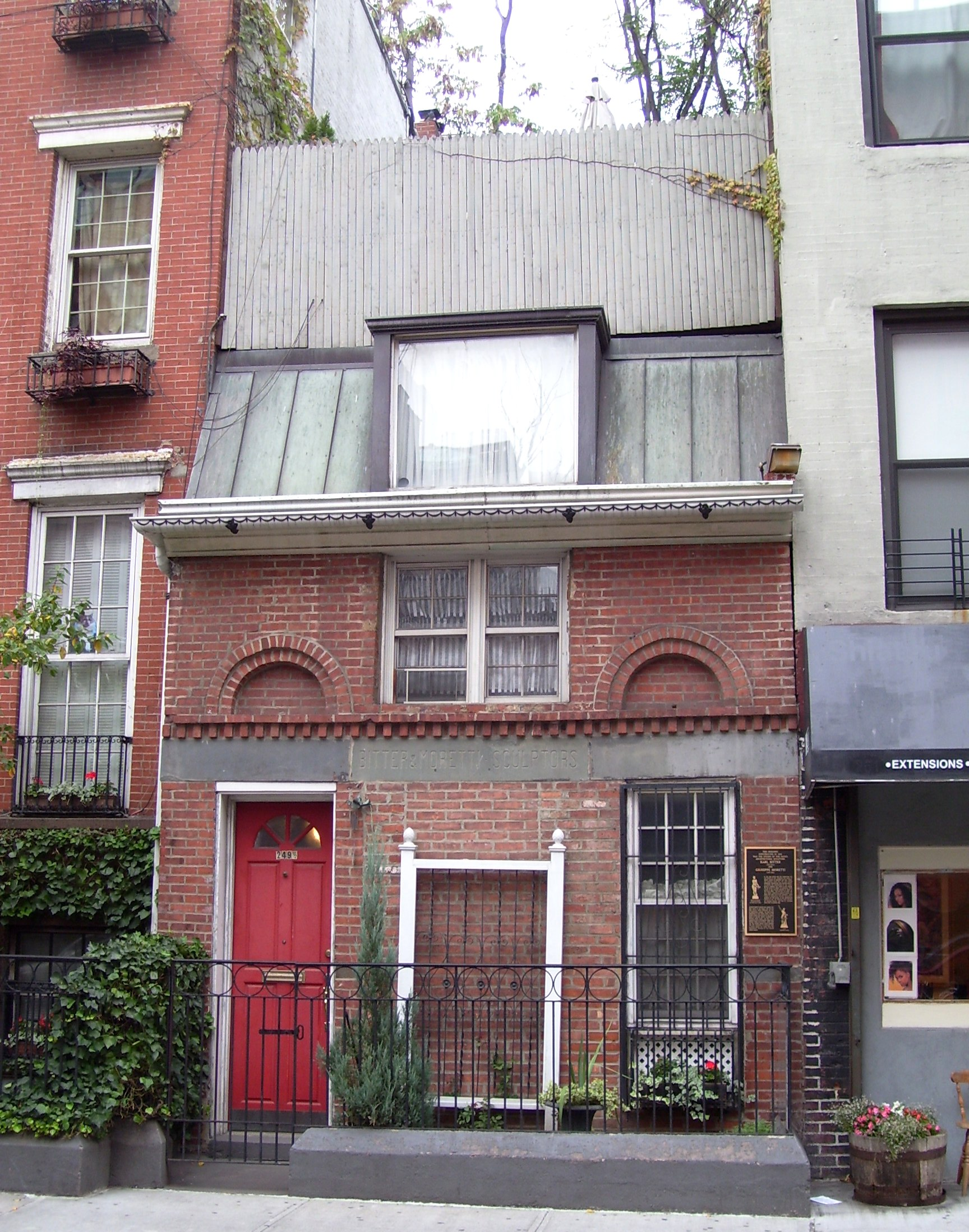 The building at 249 1/2 East 13th Street, between 2nd & 3rd Avenues in the East Village neighborhood of Manhattan, New York City, was built in 1892 as the studio for the noted architectural sculptors Karl Bitter and Giuseppe Moretti.